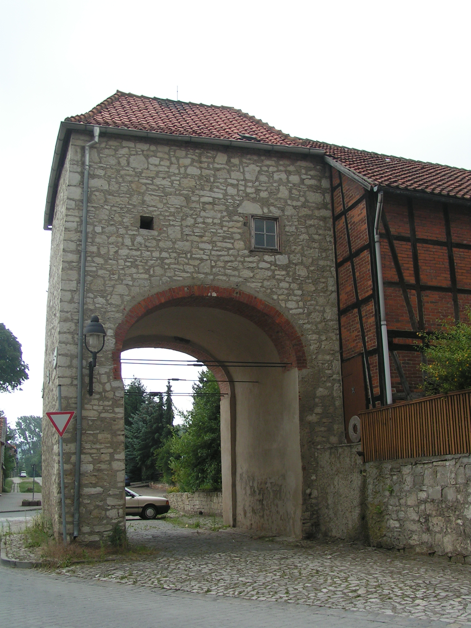 so called "Sudentor" in Badersleben, Saxony-Anhalt